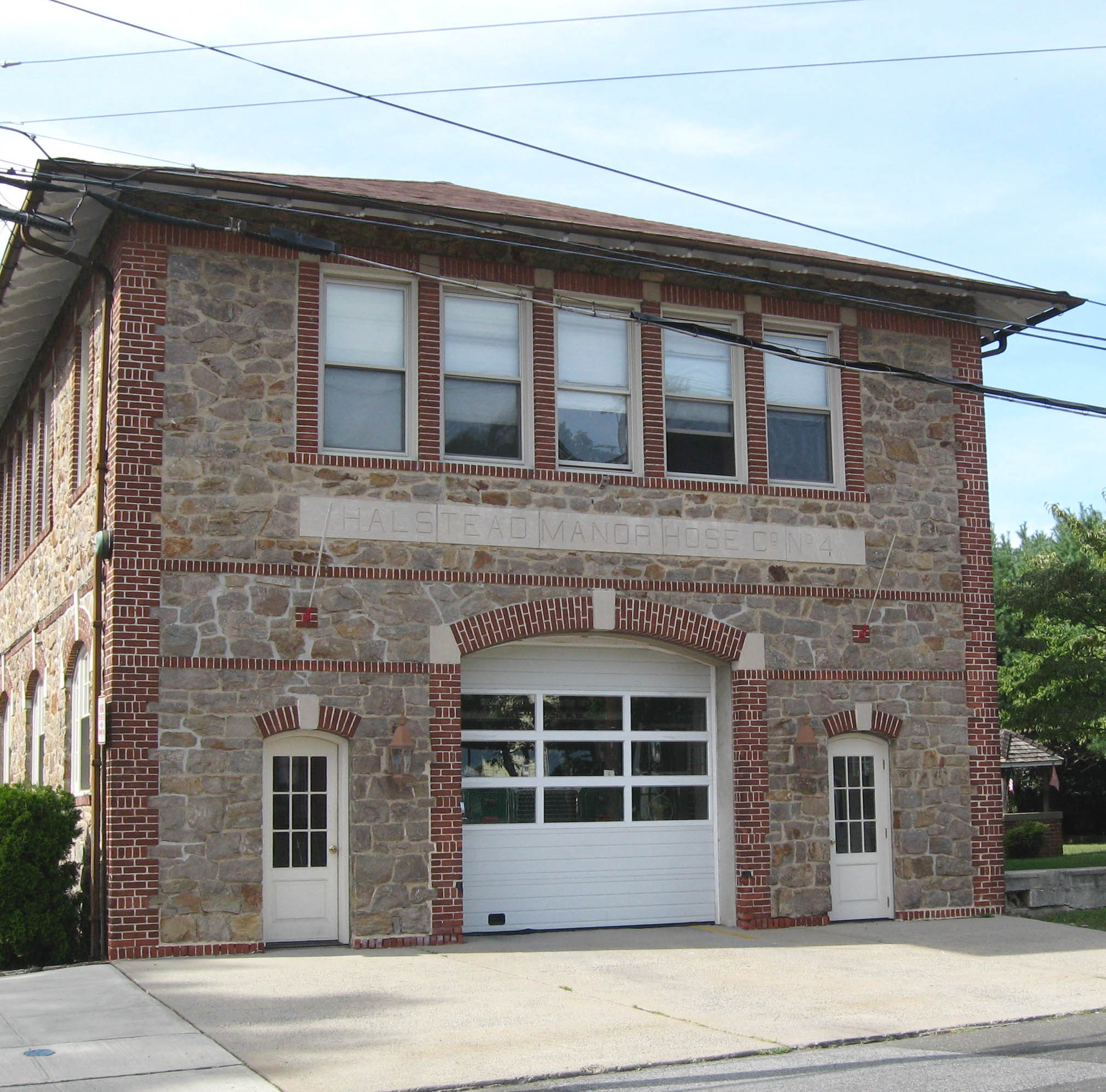 Looking northwest at 1400 Halstead Avenue, Halstead Manor Hose Company 4 of Mamaroneck, New York Fire Department on a sunny early afternoon